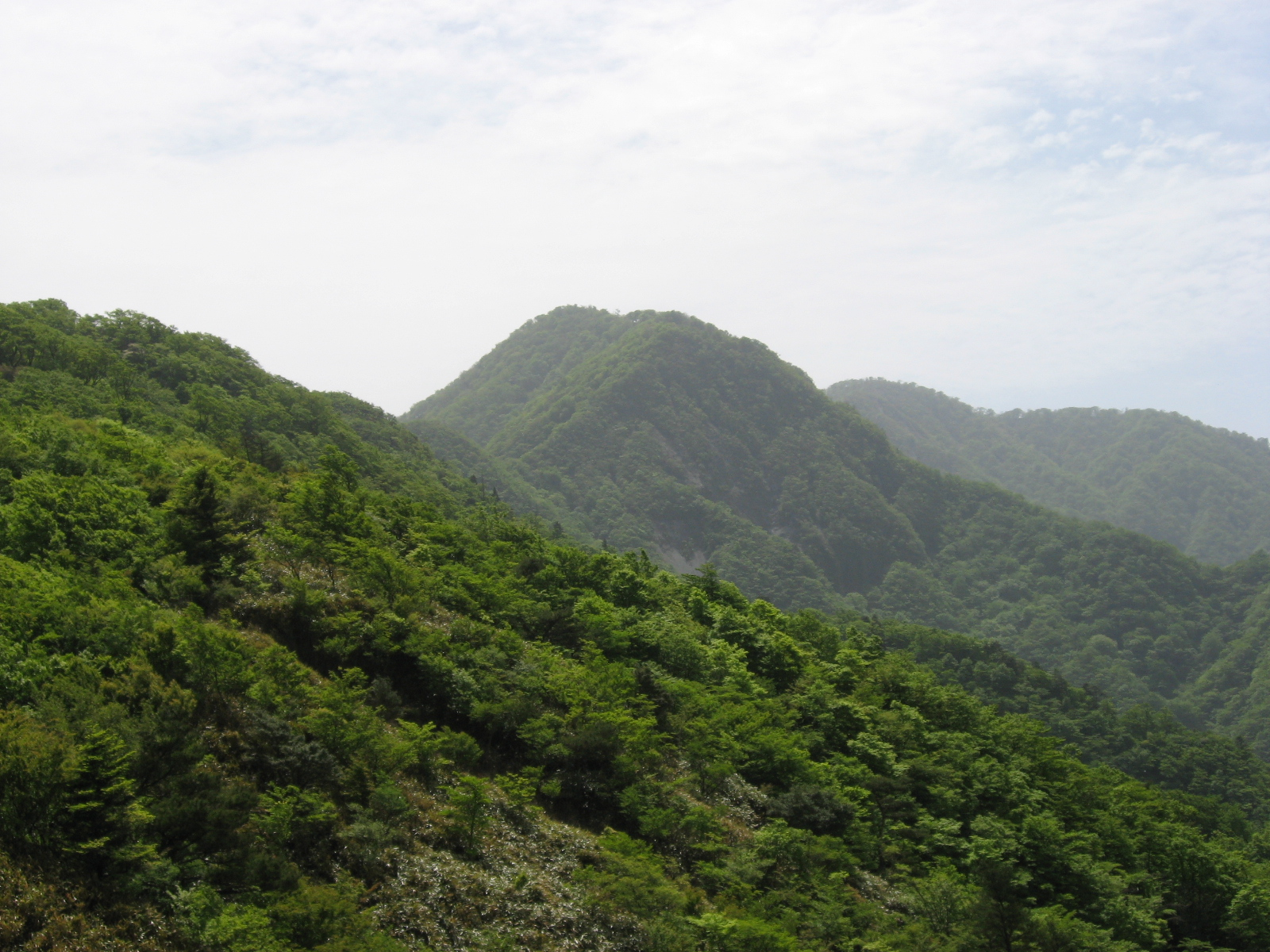 Mt. Ōkōge (大笄 Ōkōge) as seen from Inukoeji-Pass (犬越路 Inukoe-ji), Mts.Tanzawa, Kanagawa Pref., Honshu, Japan.